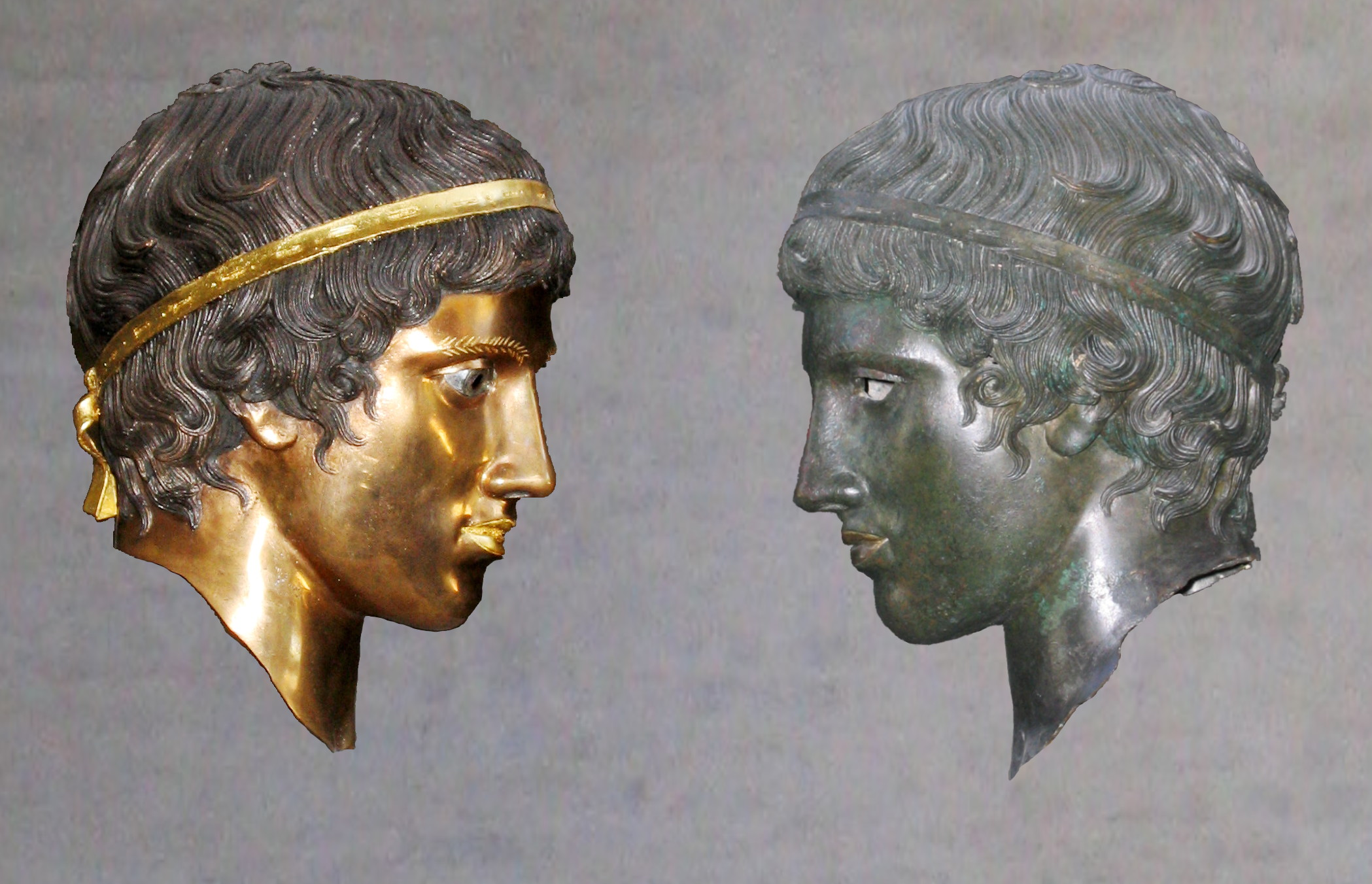 A fresh bronze head after patina (left) and the original (right). From the exihibition Bunte Götter in the Munich Glyptothek (Germany).